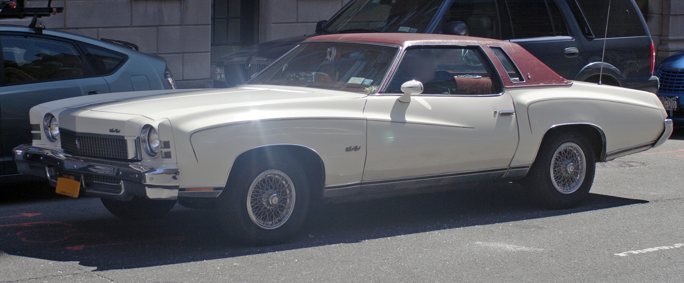 1973 Chevrolet Monte Carlo on the Upper East Side. Looked to be in very good condition until I noticed the rust bubbles under the vinyl roof.